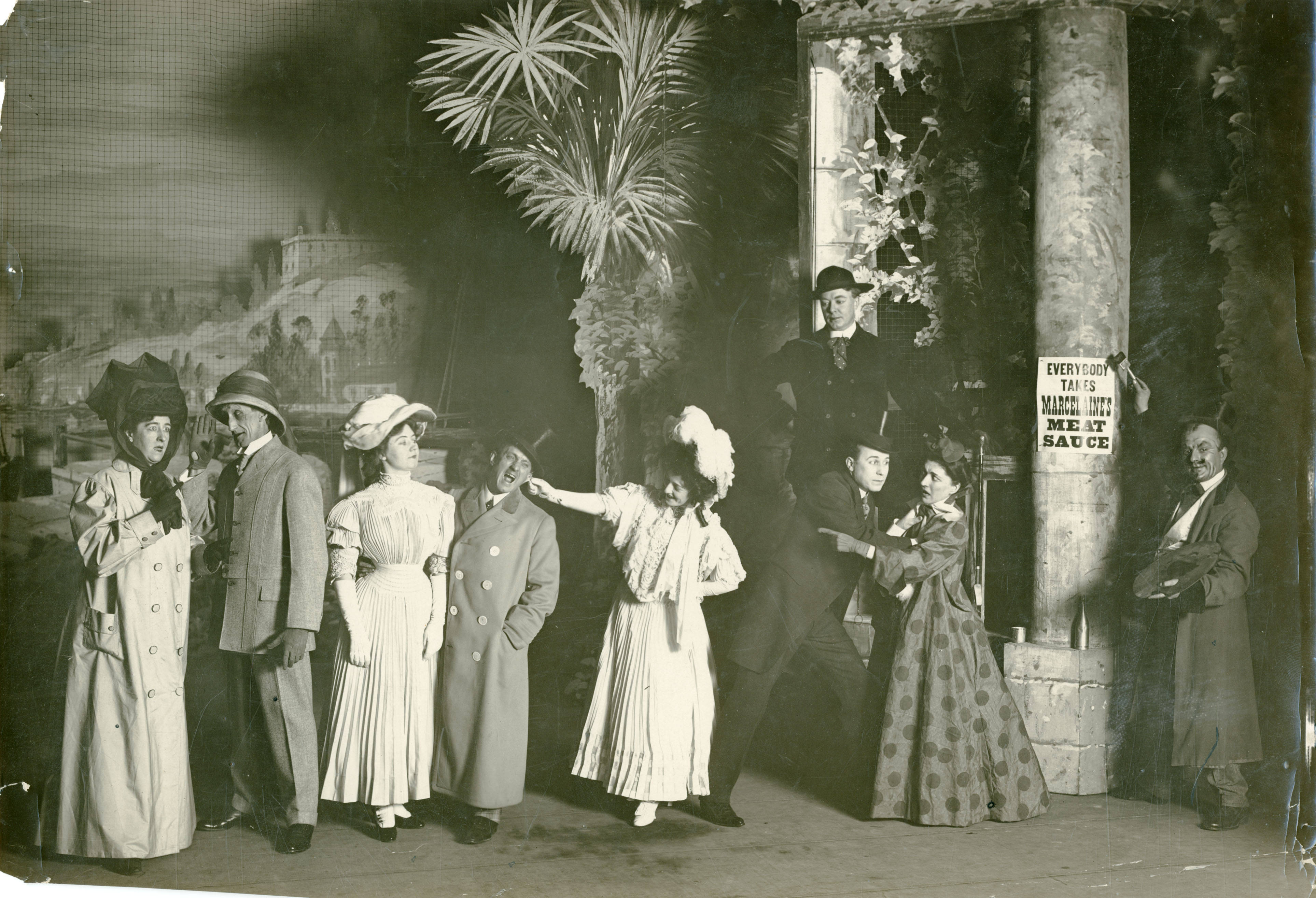 A scene from "Knight for a Day," which opened Sept. 27, 1908, at the Moore Theater, Seattle. Subjects: plays